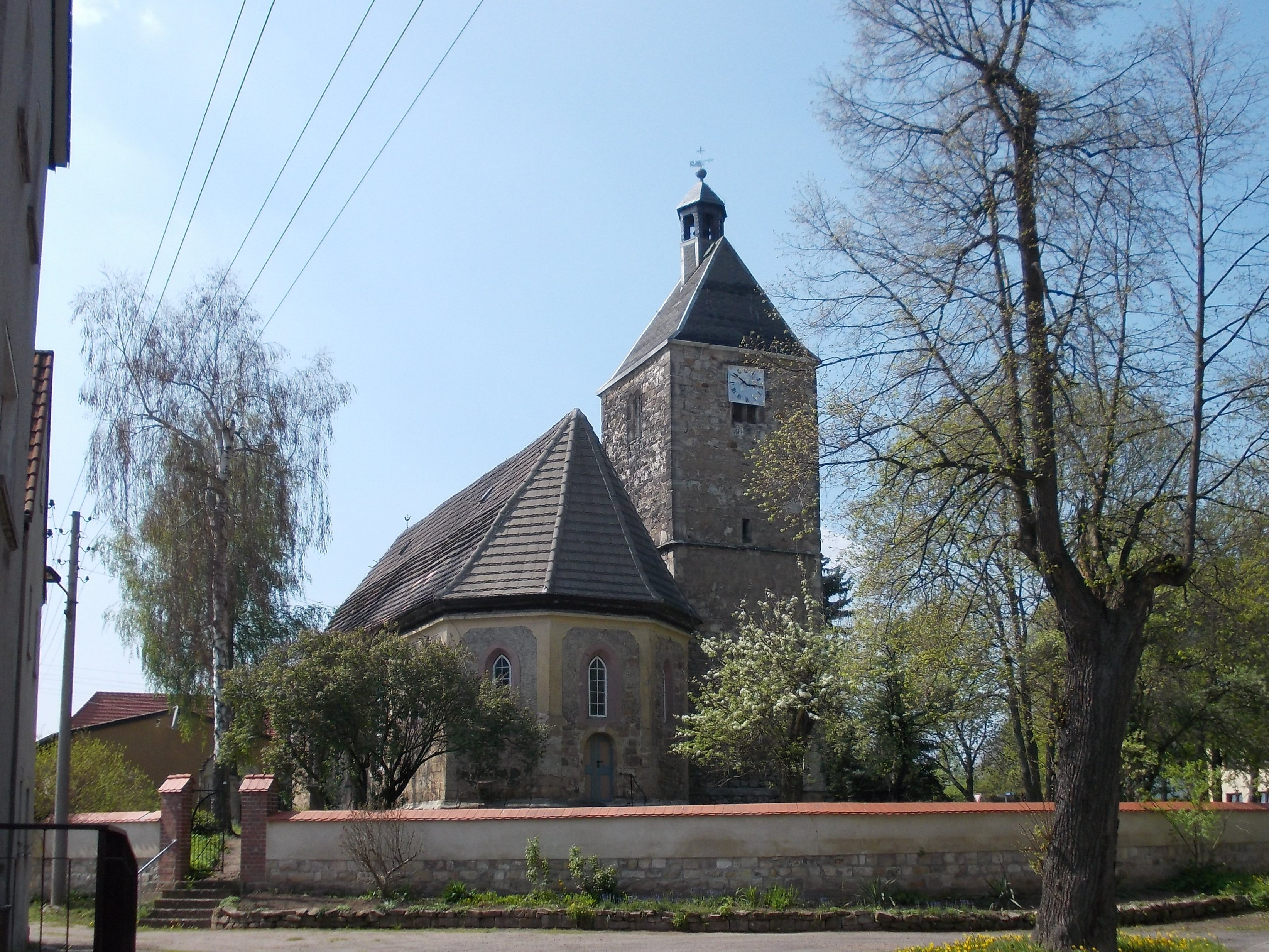 Obernessa church (Teuchern, district: Burgenlandkreis, Saxony-Anhalt)